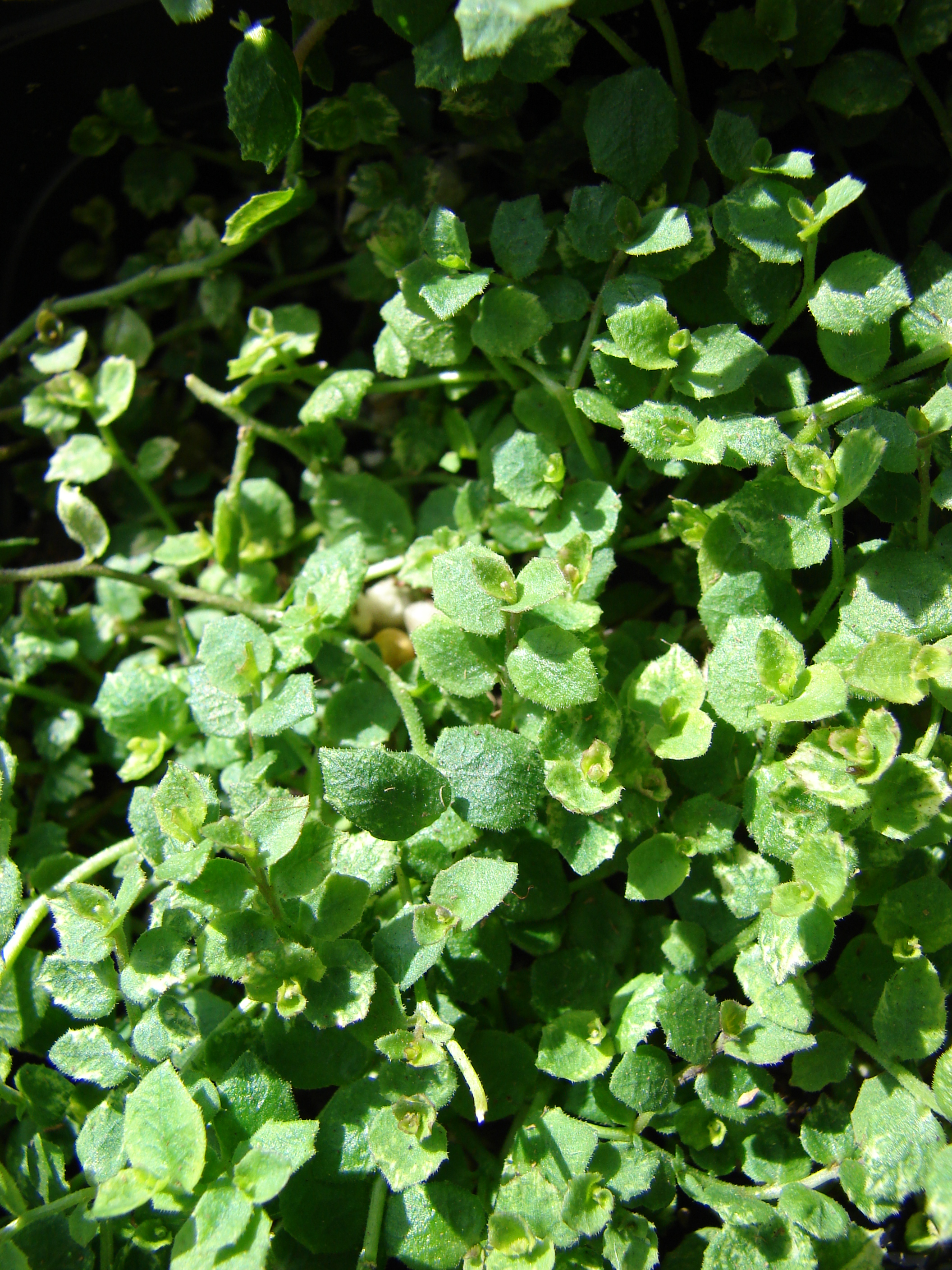 Isotoma fluviatilis (leaves). Location: Maui, Home Depot Nursery Kahului